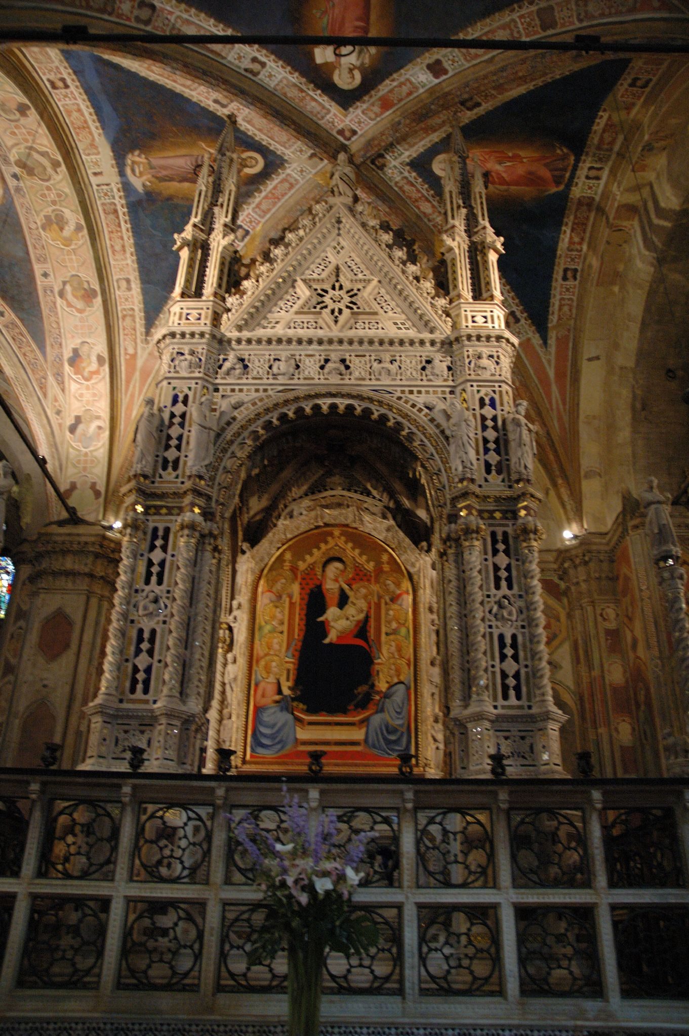 see above